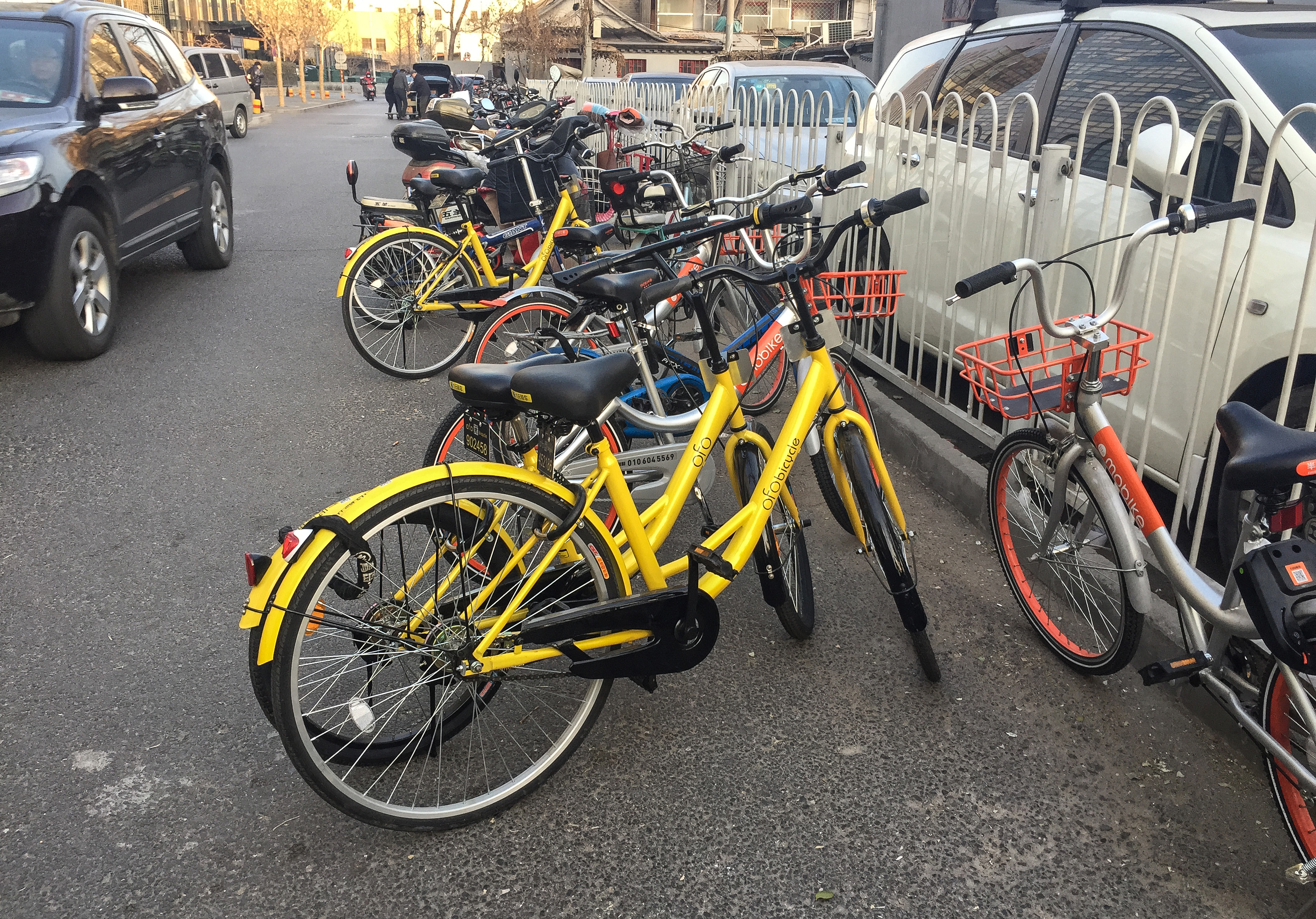 Two major bicycle sharing firms in China. Ofo is yellow and Mobike is orange.